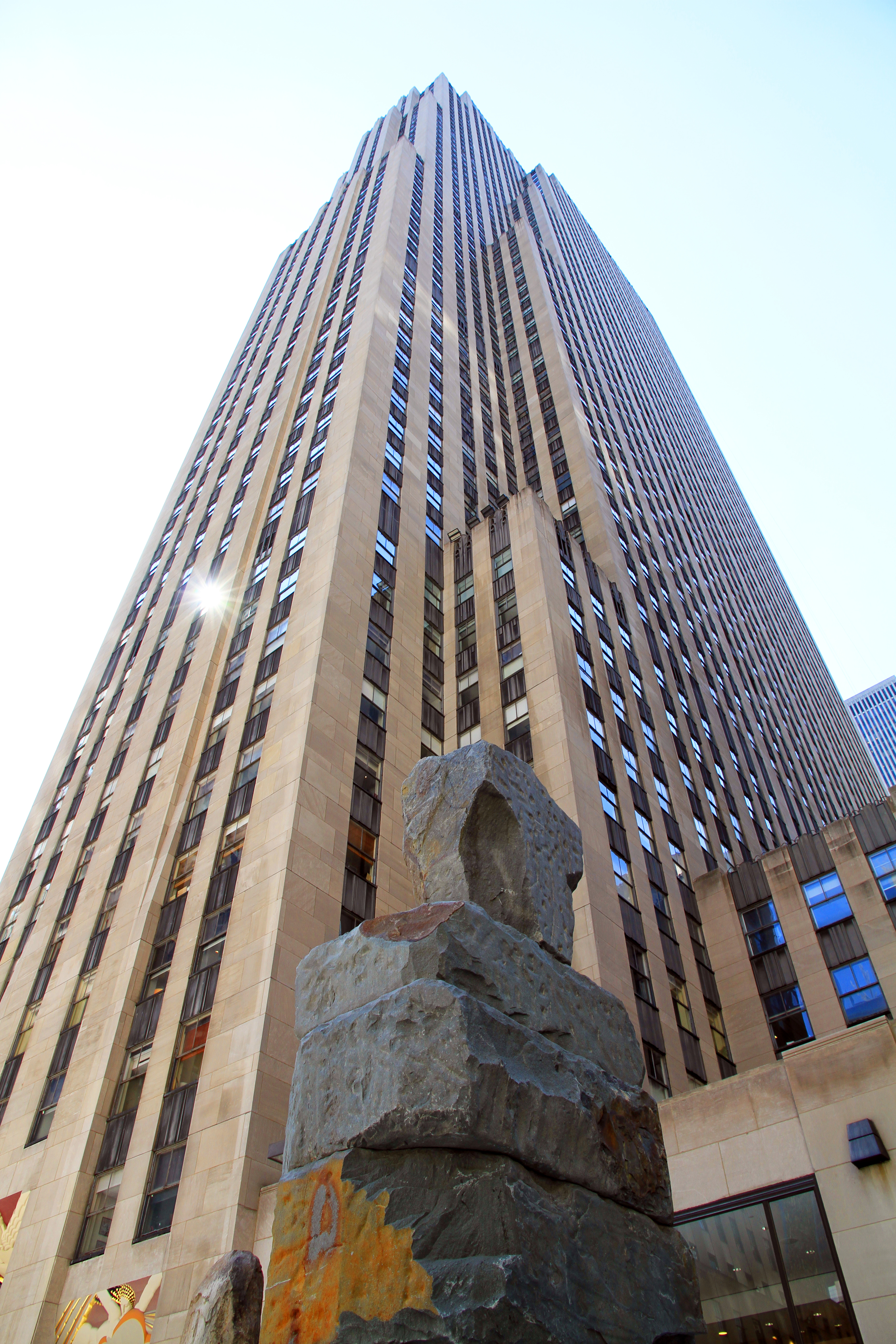 GE Building